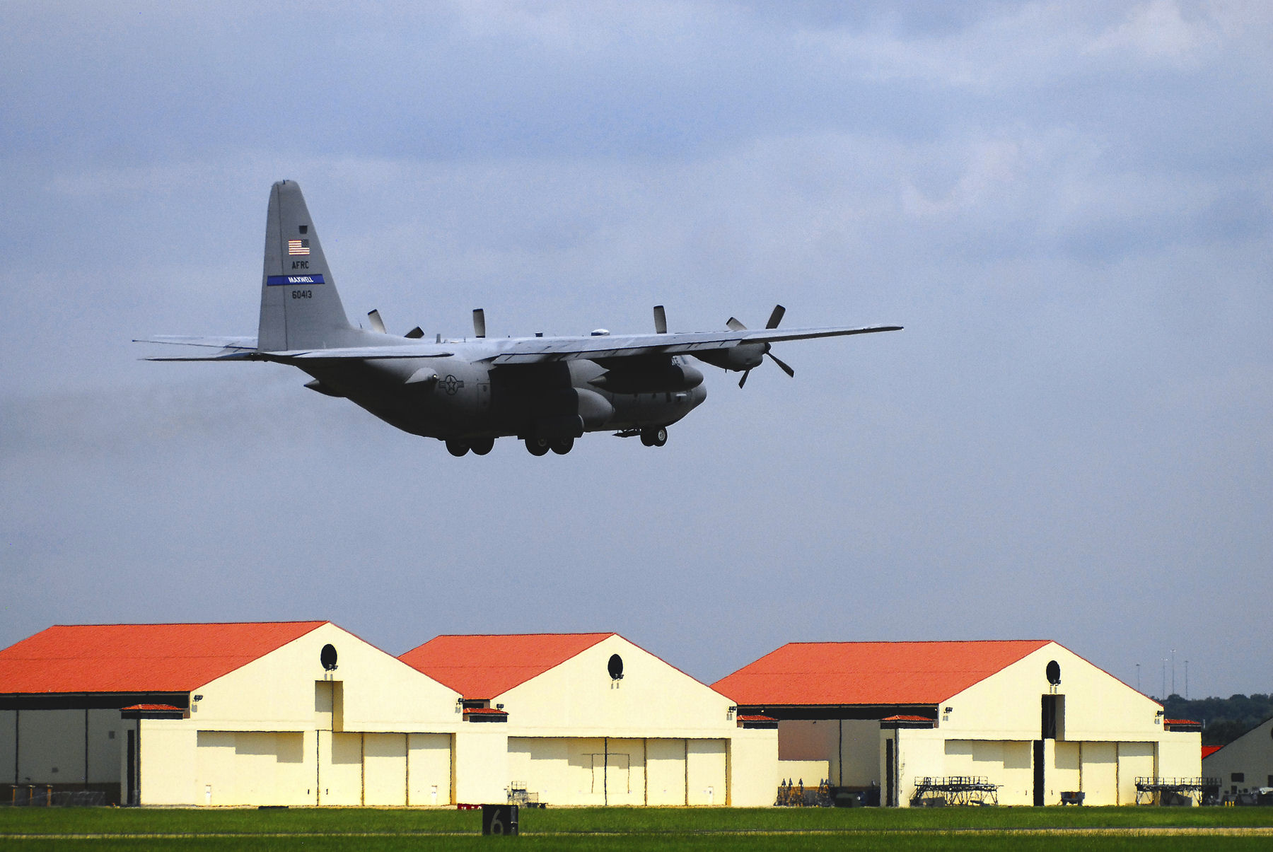 A C-130 Hercules aircraft of the 908th Airlift Wing takes off from Maxwell Air Force Base with the wing's maintenance hangers in the background. According to a recent Air Force announcement, the 908th's seven transport aircraft are to be retired. Although the unit will remain functional, members are concerned about the future, as any possible unit organization and mission have yet to be decided.